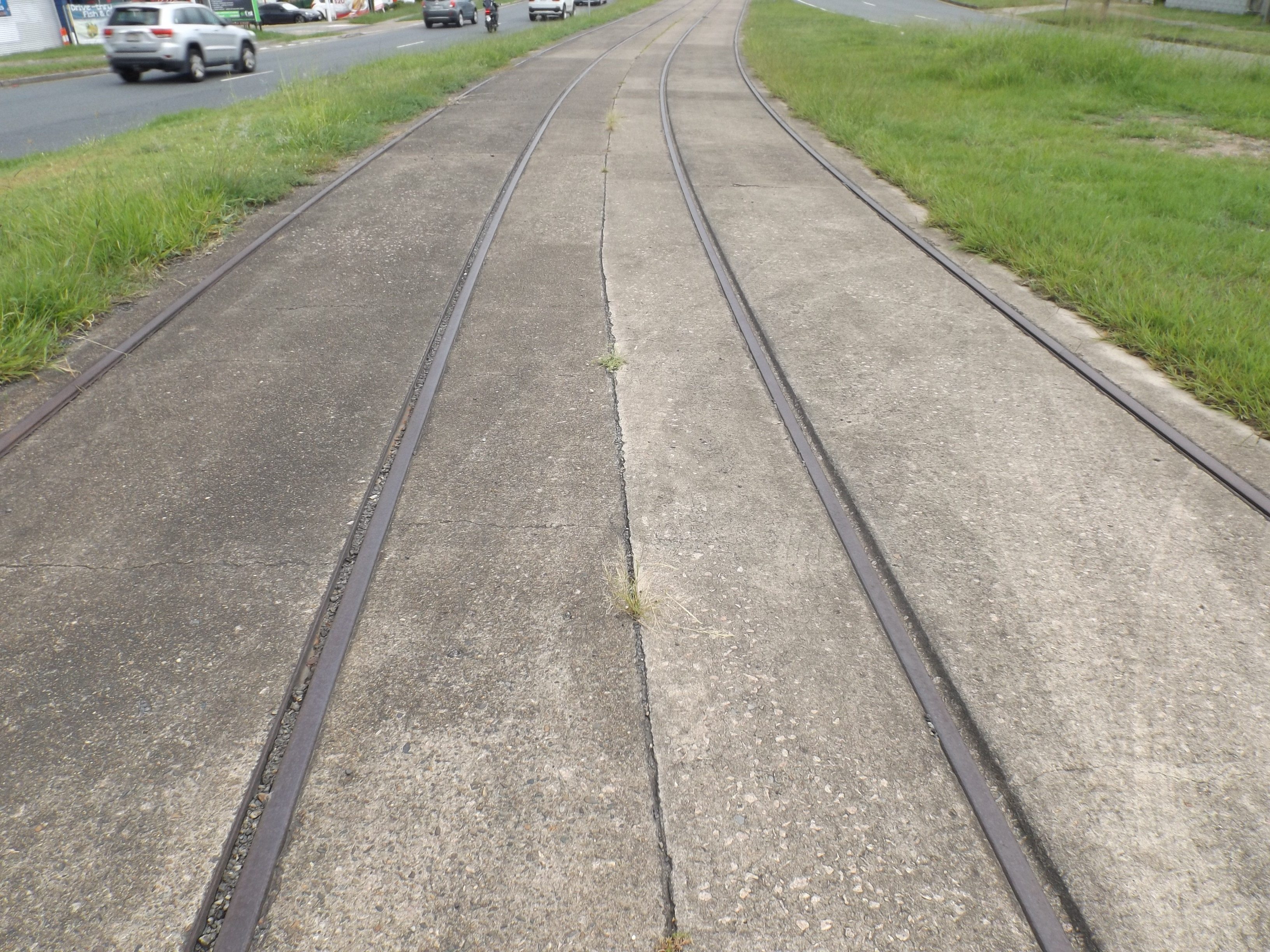 Photo of Old Cleveland Road Tramway Tracks at Carina, Brisbane, Queensland, Australia.